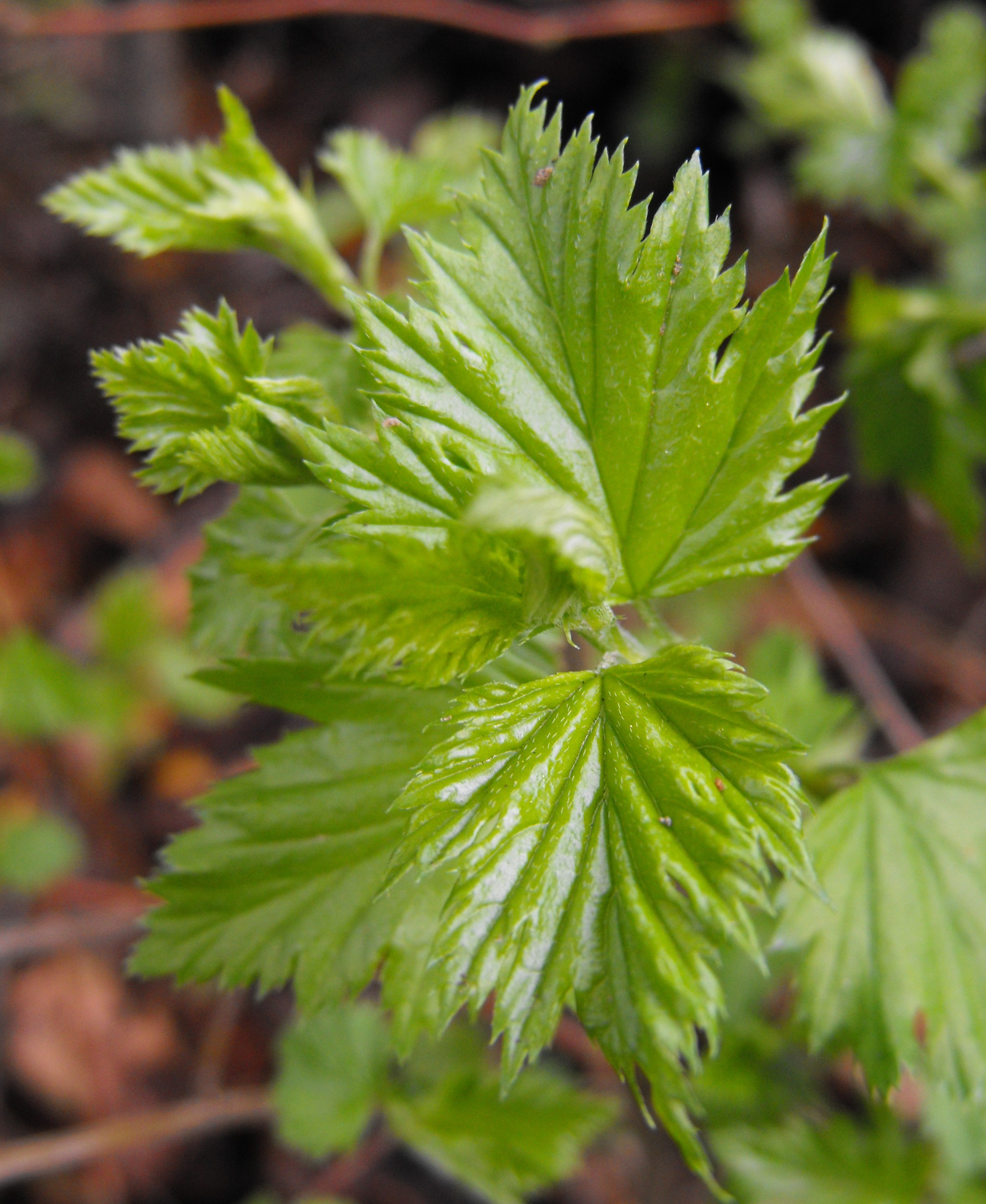 Neviusia cliftonii at the UC Berkeley Botanical Garden, California, USA. Identified by sign.